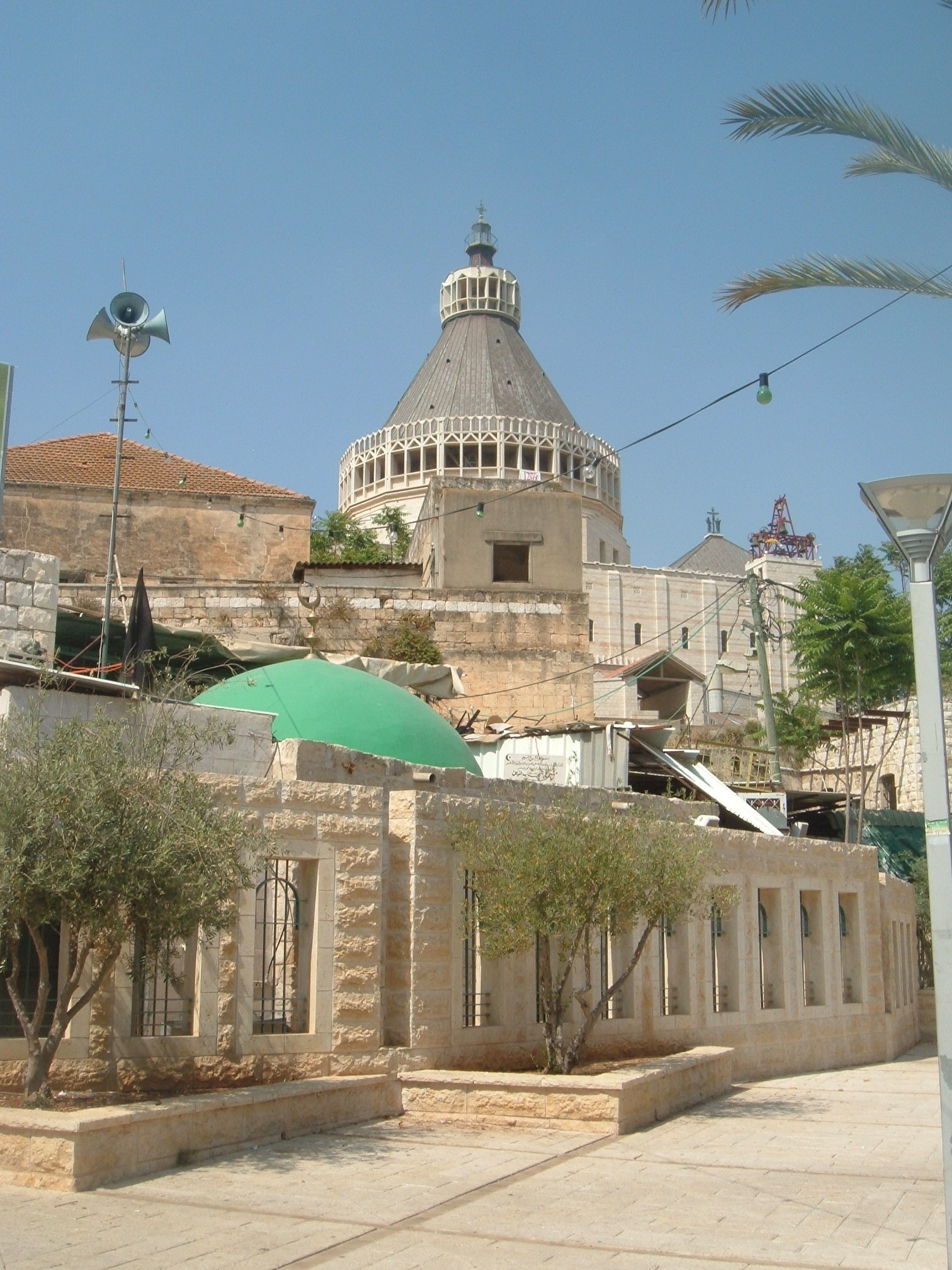 shihab el din mosque, nazareth מסגד שיהאב אל דין נצרת